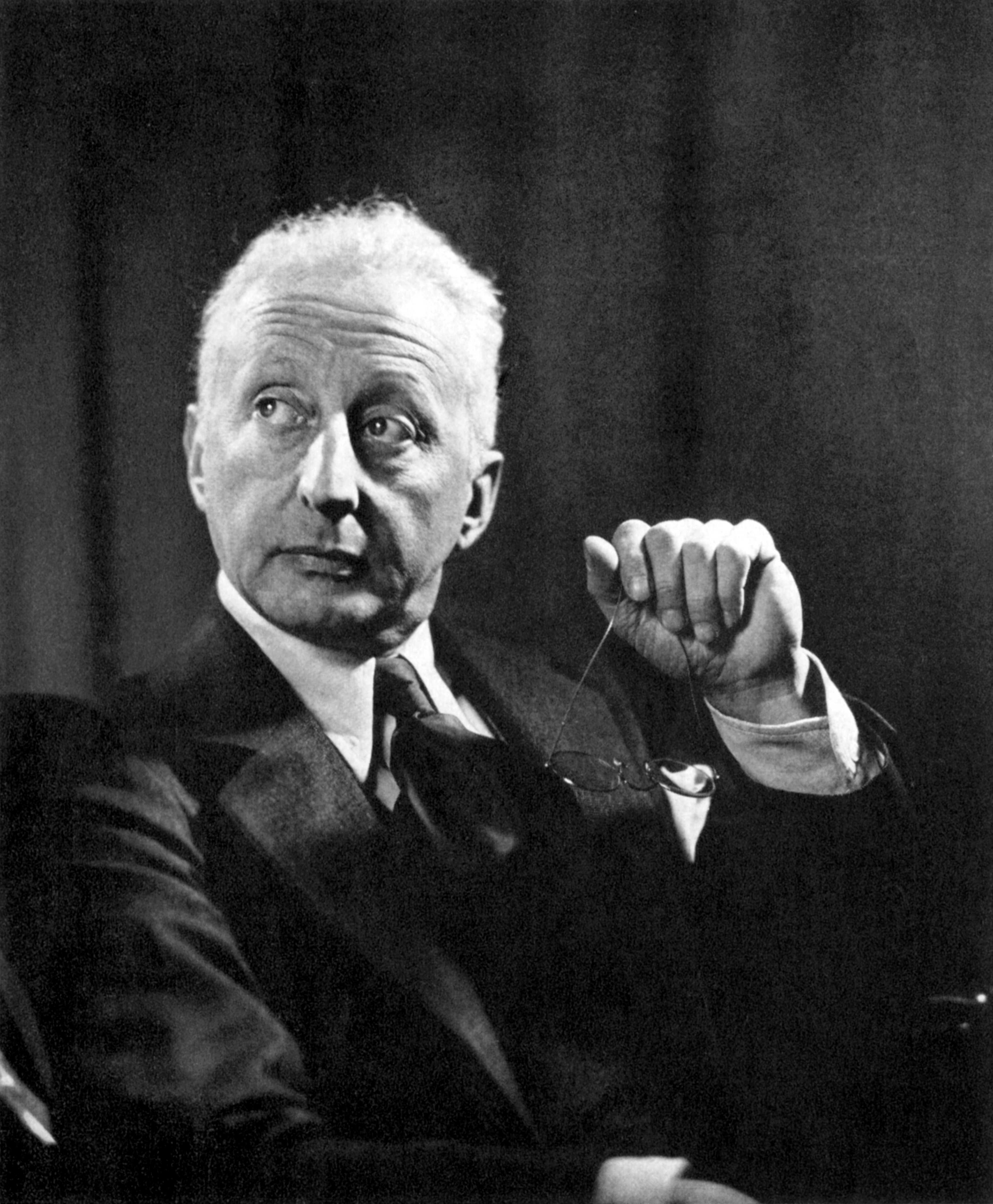 Photograph of Jerome Kern Caption reads as follows: Jerome Kern is one of Manhattan's shrewdest and most passionate bibliophiles. (The Kern sale is still a glamorous legend.) He is also the composer of masterpieces such as They Wouldn't Believe Me and Ol' Man River—and Roberta.